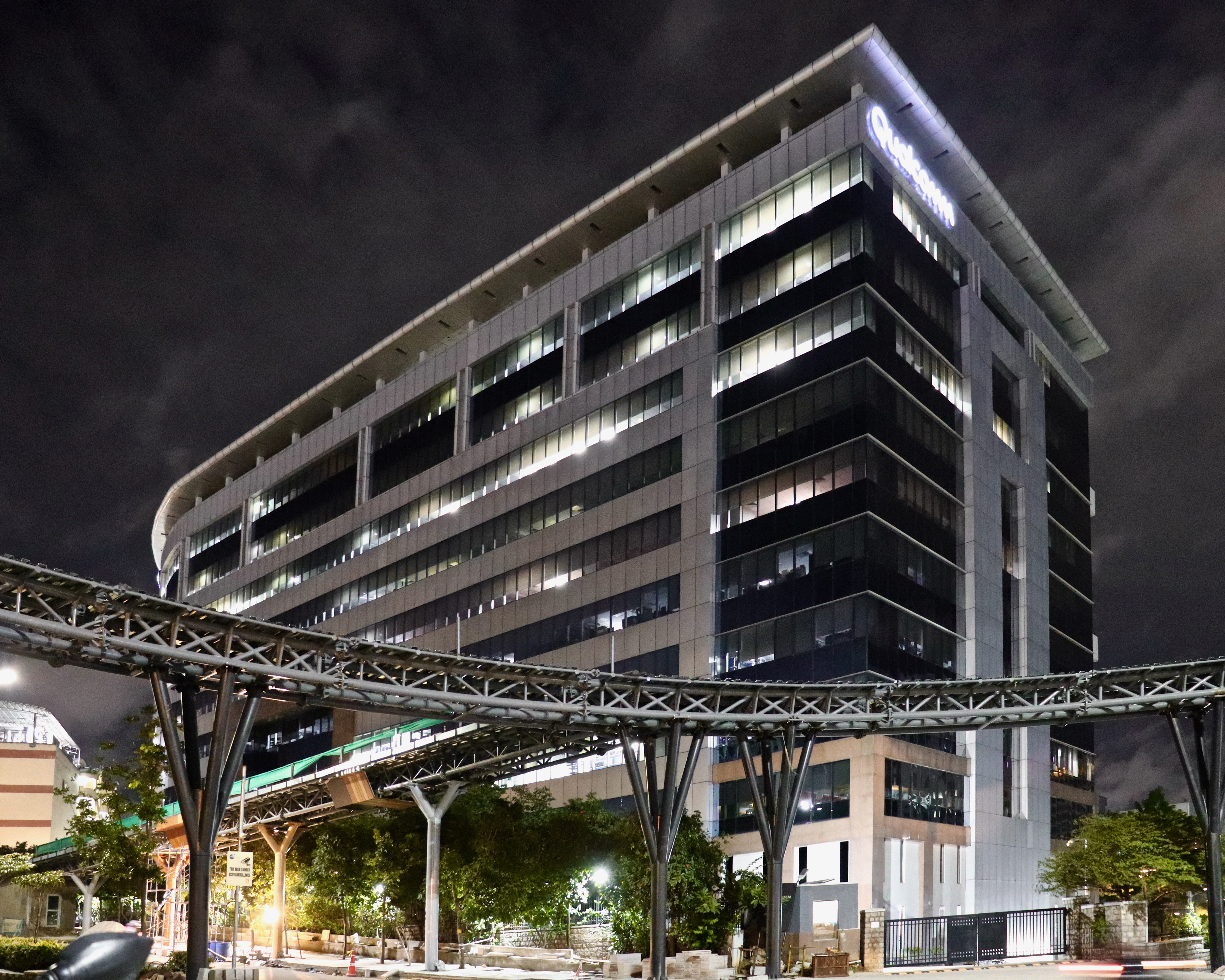 Qualcomm technologies building located in Mindspace, Hyderabad